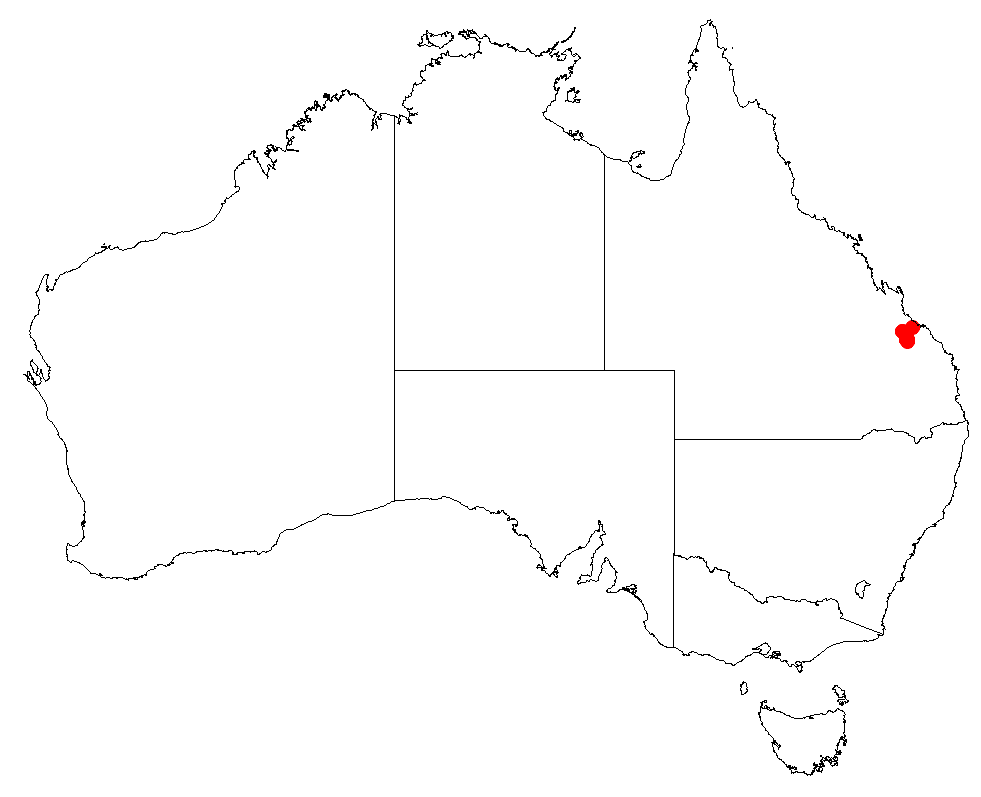 Parsonsia kroombitensis Occurrence data for Australia from Australasian Virtual Herbarium downloaded 22 December 2018